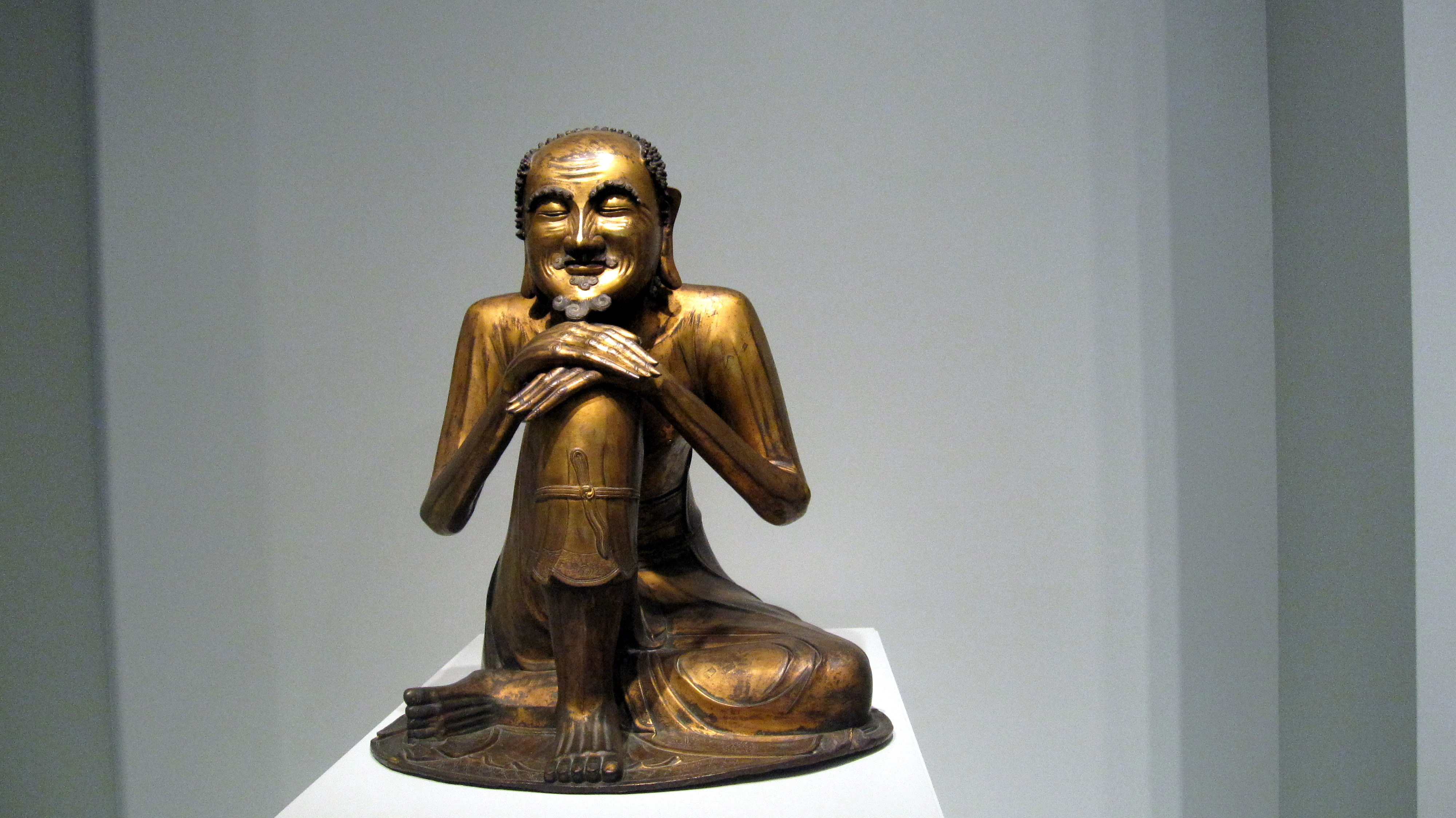 The Buddha Shakyamuni as an ascetic, 17th C. Ming Dynasty